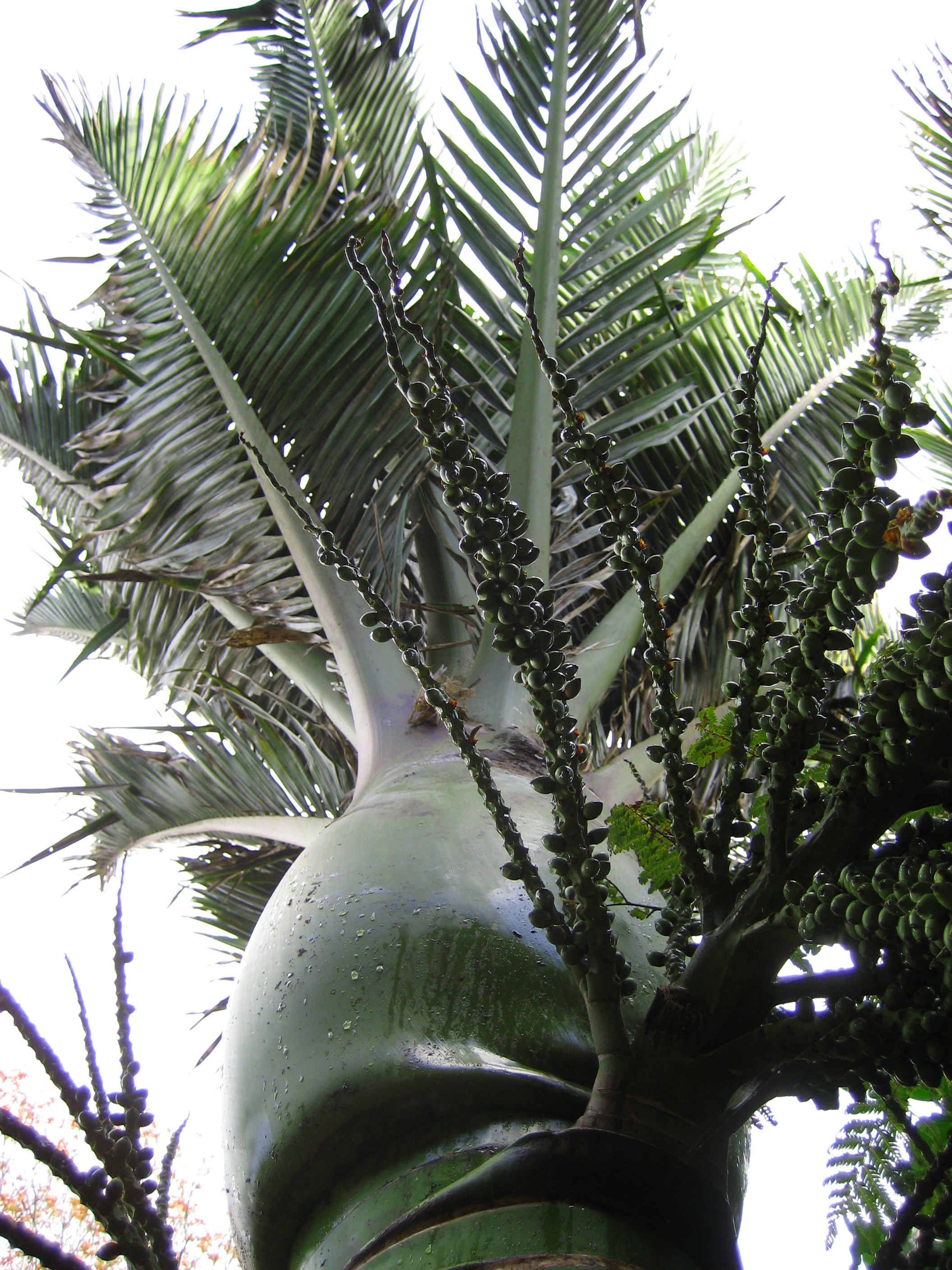 Crownshaft and seeds of Rhopalostylis aff. sapida (Chathams Islands Nīkau palm), Auckland, New Zealand